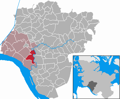 This map shows the area of the municipality Beidenfleth in the Kreis (district) Steinburg, Schleswig-Holstein, Germany.